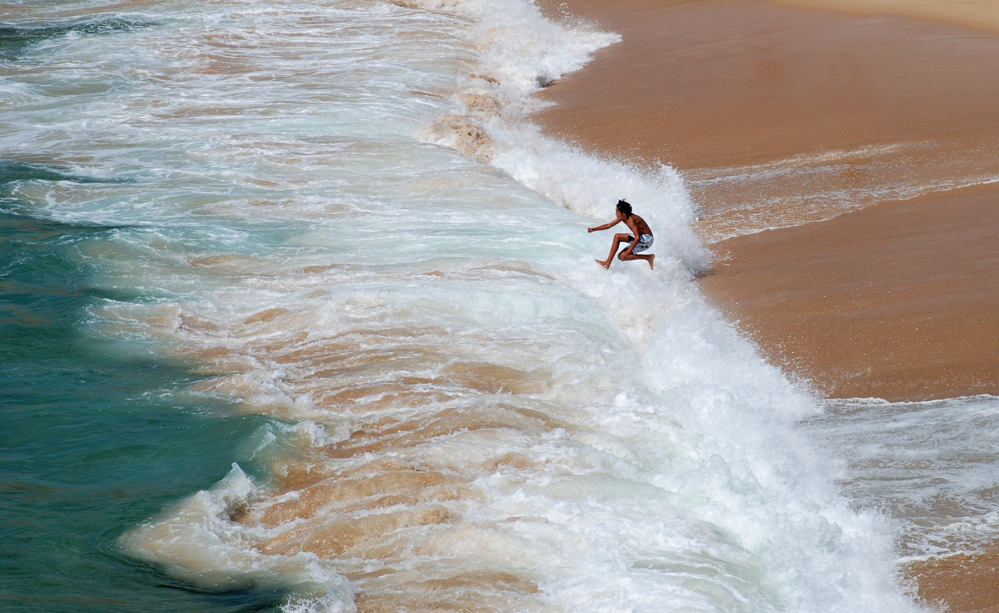 Playing in the surf. Porto Covo, Portugal